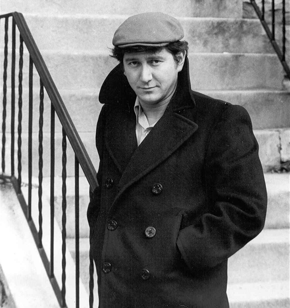 Phil Ochs outside the offices of the National Student Association in Washington, DC